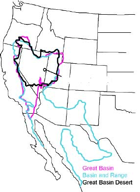 The Great Basin can be defined hydrographically (in purple), topographically (in blue), or biologically (in black).